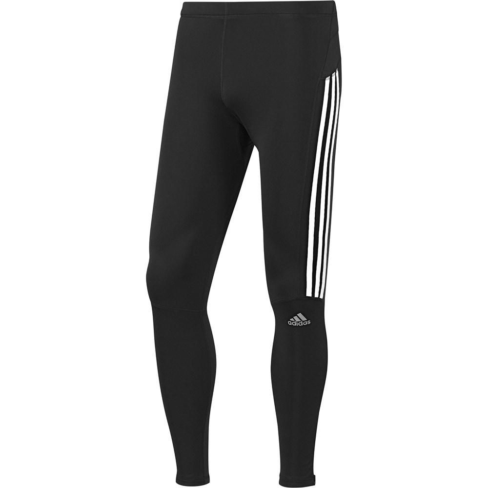 men´s adidas legging